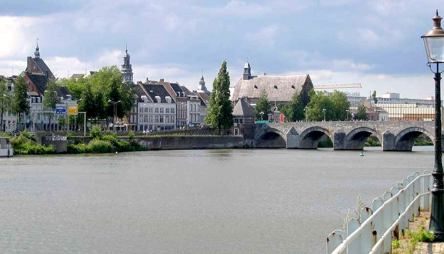 View over the river Maas to the old town of Maastricht